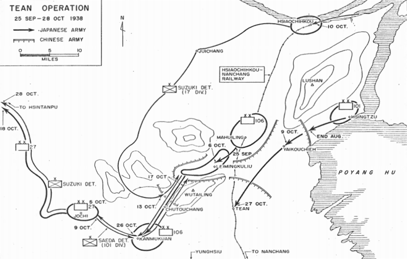 The Japanese 106th Division is encircled by Chinese forces during the Battle of Wanjialing, 1938.